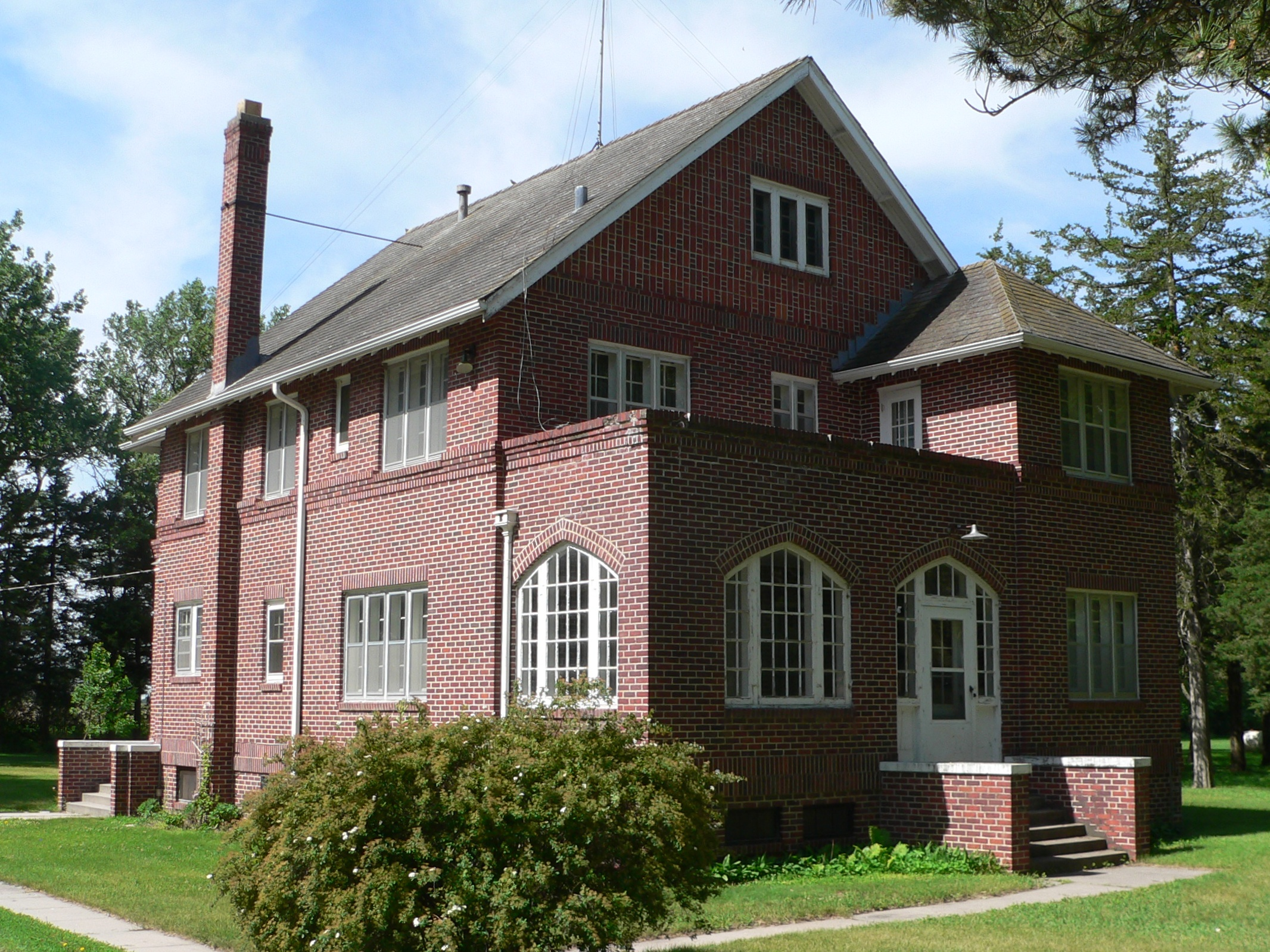 Rectory at St. Anselm's Church in Anselmo, Nebraska; seen from the southeast. The St. Anselm's complex, which includes the church, rectory, and parish hall, is listed in the National Register of Historic Places.